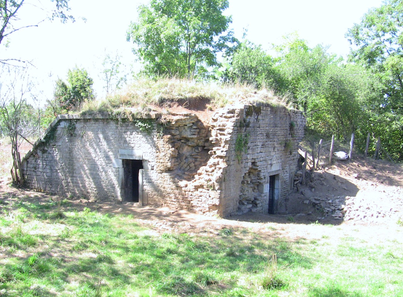 Fort of Rosemont, located in Besançon (France)